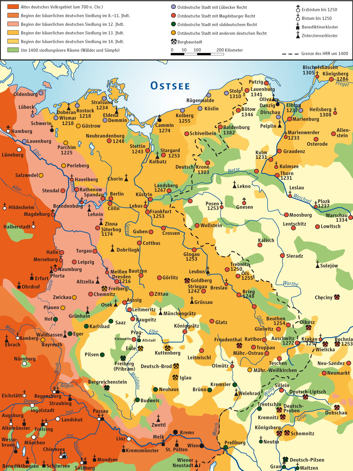 Map of German Eastern settlement